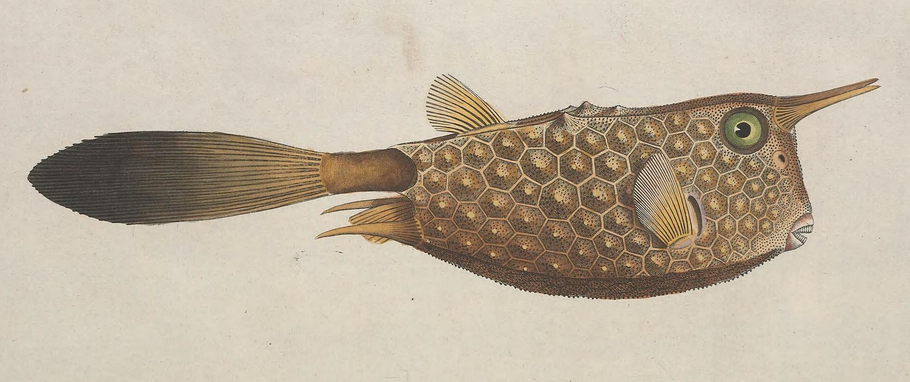 Ostracion